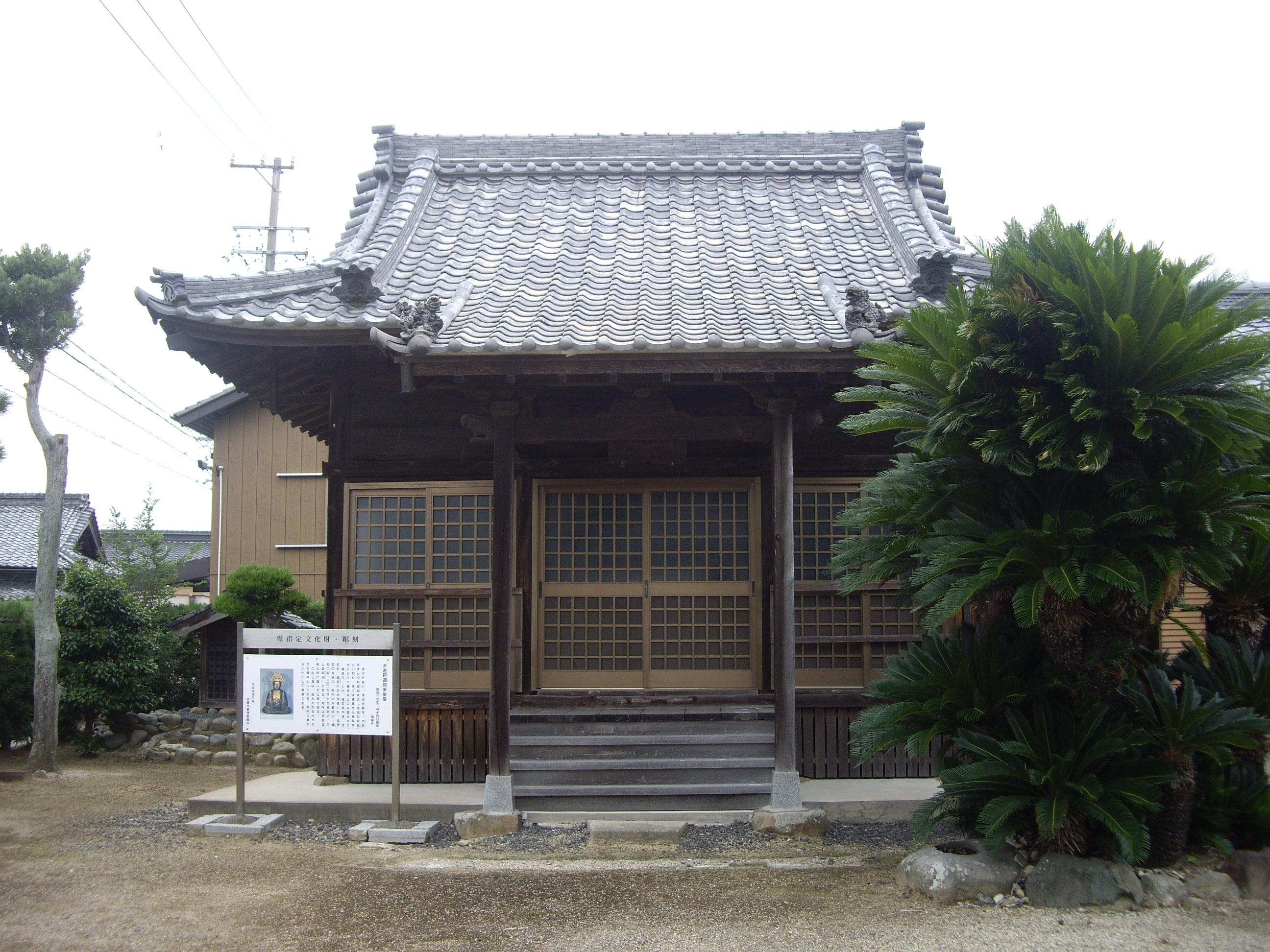 Nan'yō-ji Temple, in Suzuka, Mie Prefecture, Japan